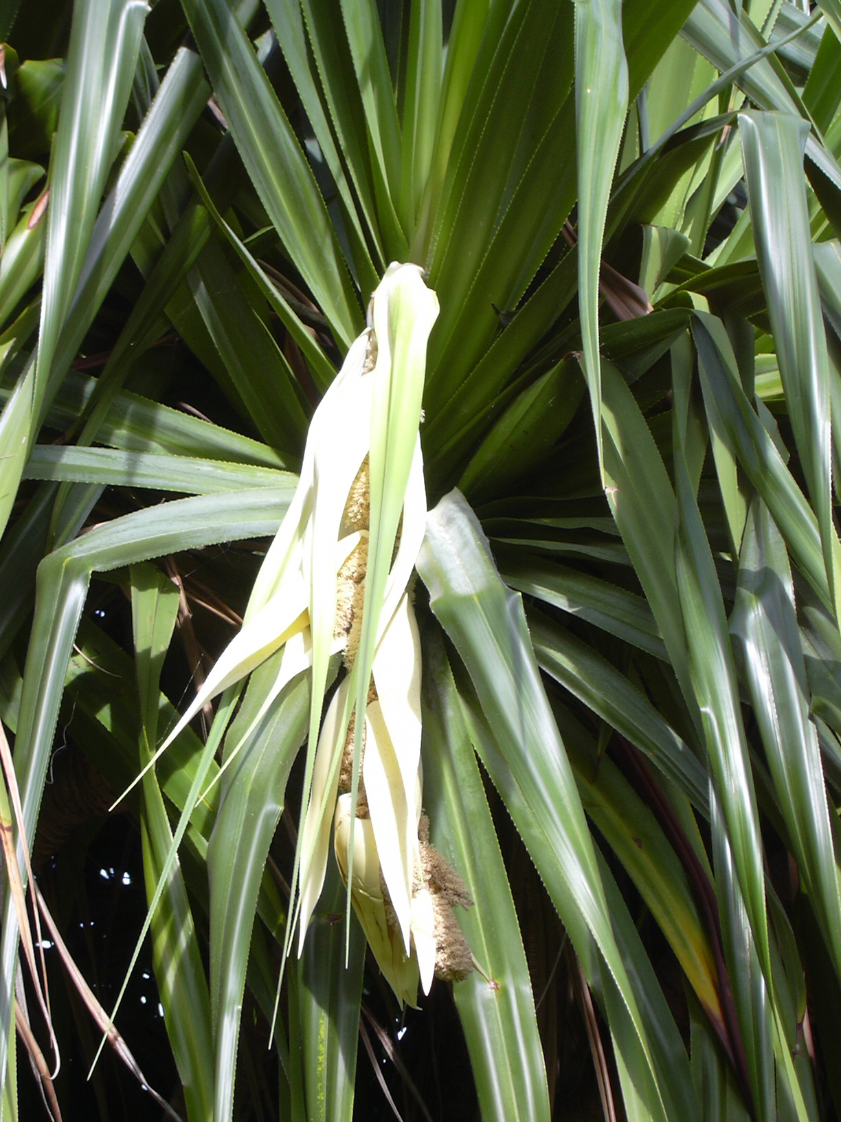 Pandanus tectorius (male flower). Location: Maui, Kipahulu Haleakala National Park